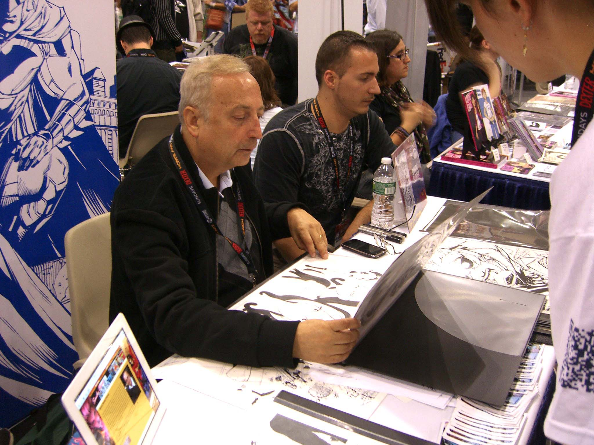 Comics creator Sandu Florea evaluating an aspiring artist's portfolio at the New York Comic Con, October 15, 2011. This photo was created by Luigi Novi. It is not in the public domain, and use of this file outside of the licensing terms is a copyright violation.